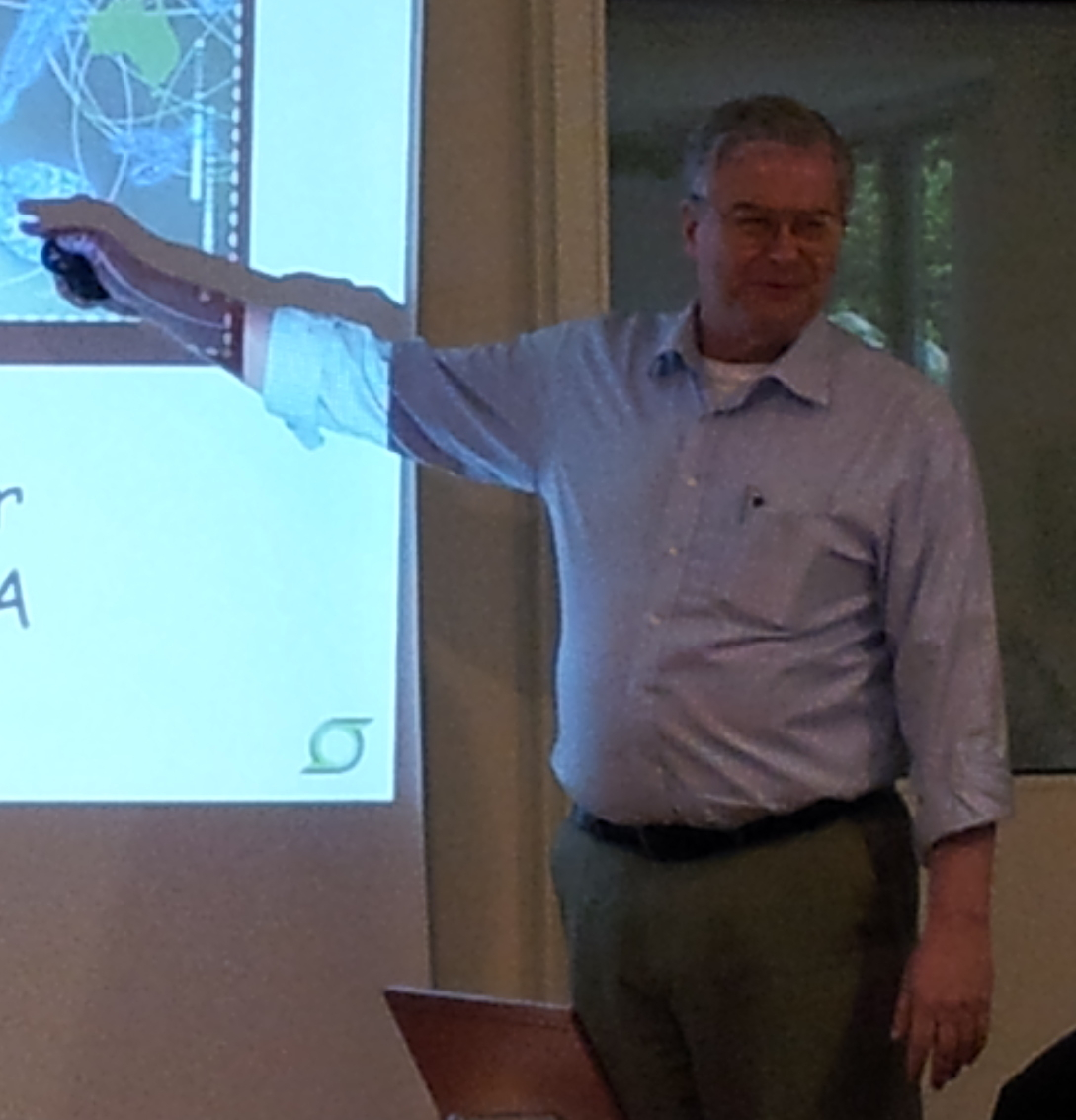 George Weinstock in May 2013